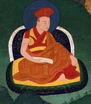 Zhonnu Sengge b.1200 - d.1266, 3rd Abbot of Ralung Monastery, Tibet